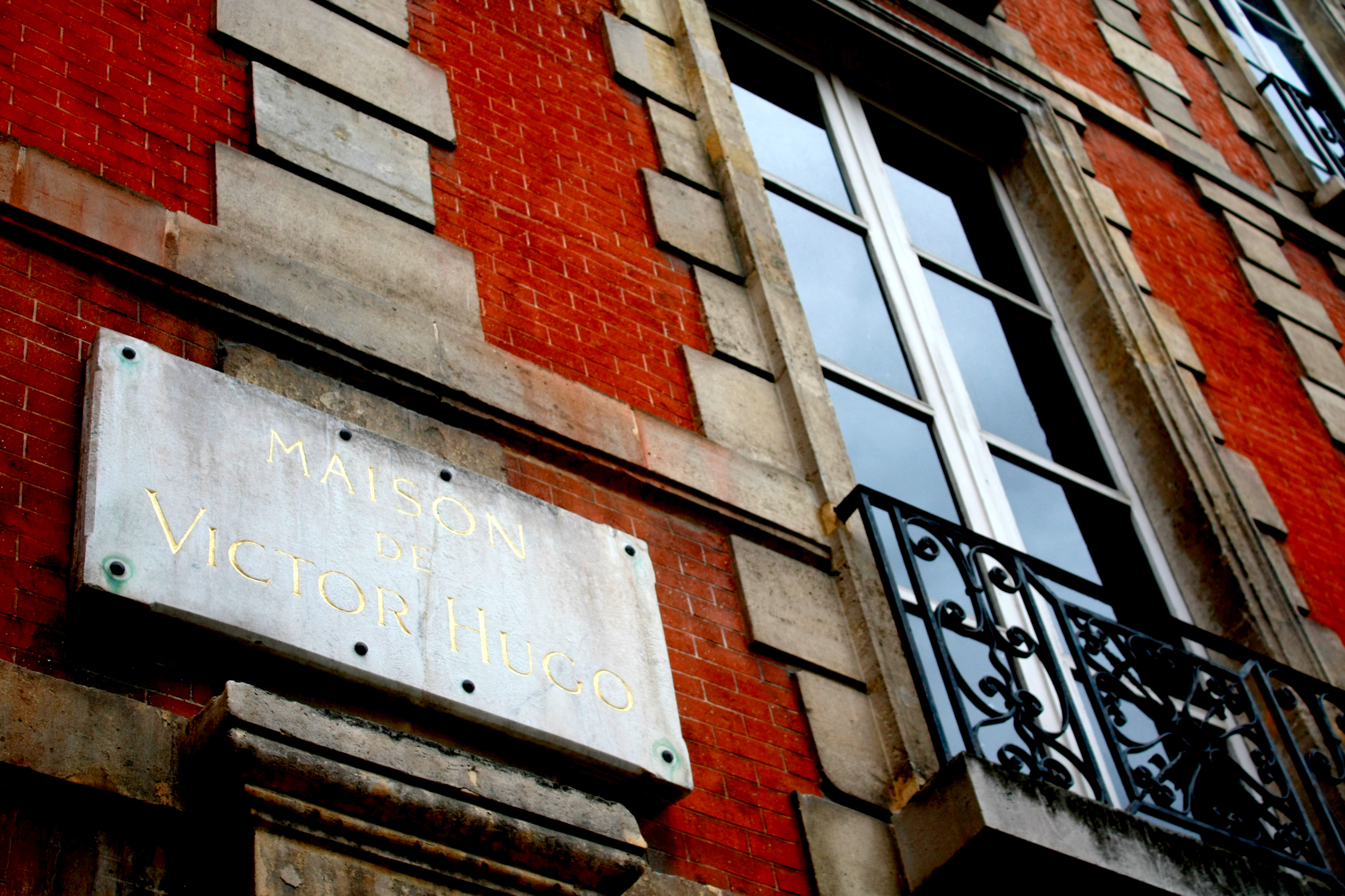 Outside Victor Hugo House